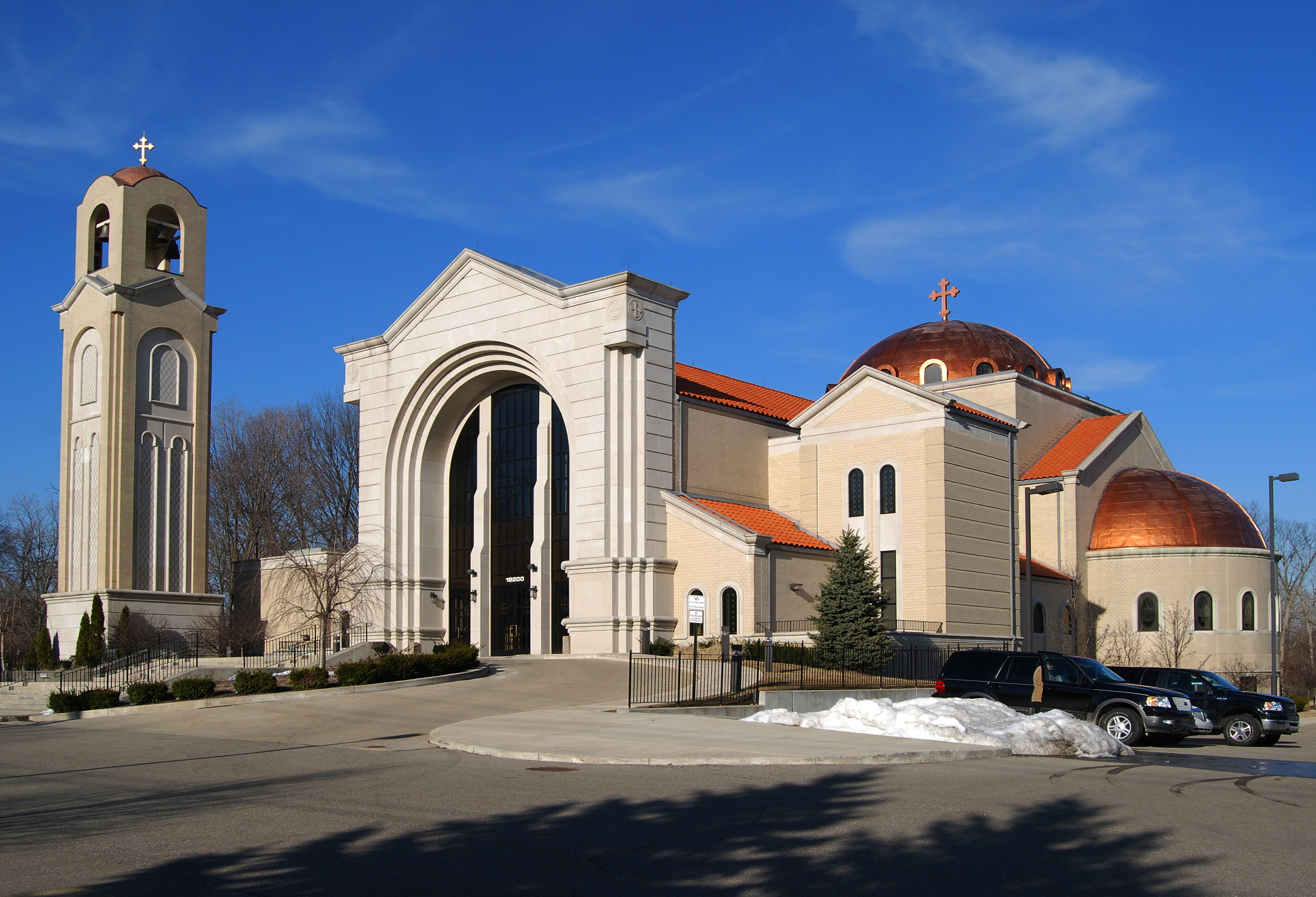 St. Mary's Antiochian Orthodox Church — Livonia, Michigan. Angelos Demetriou & Associates - Architect